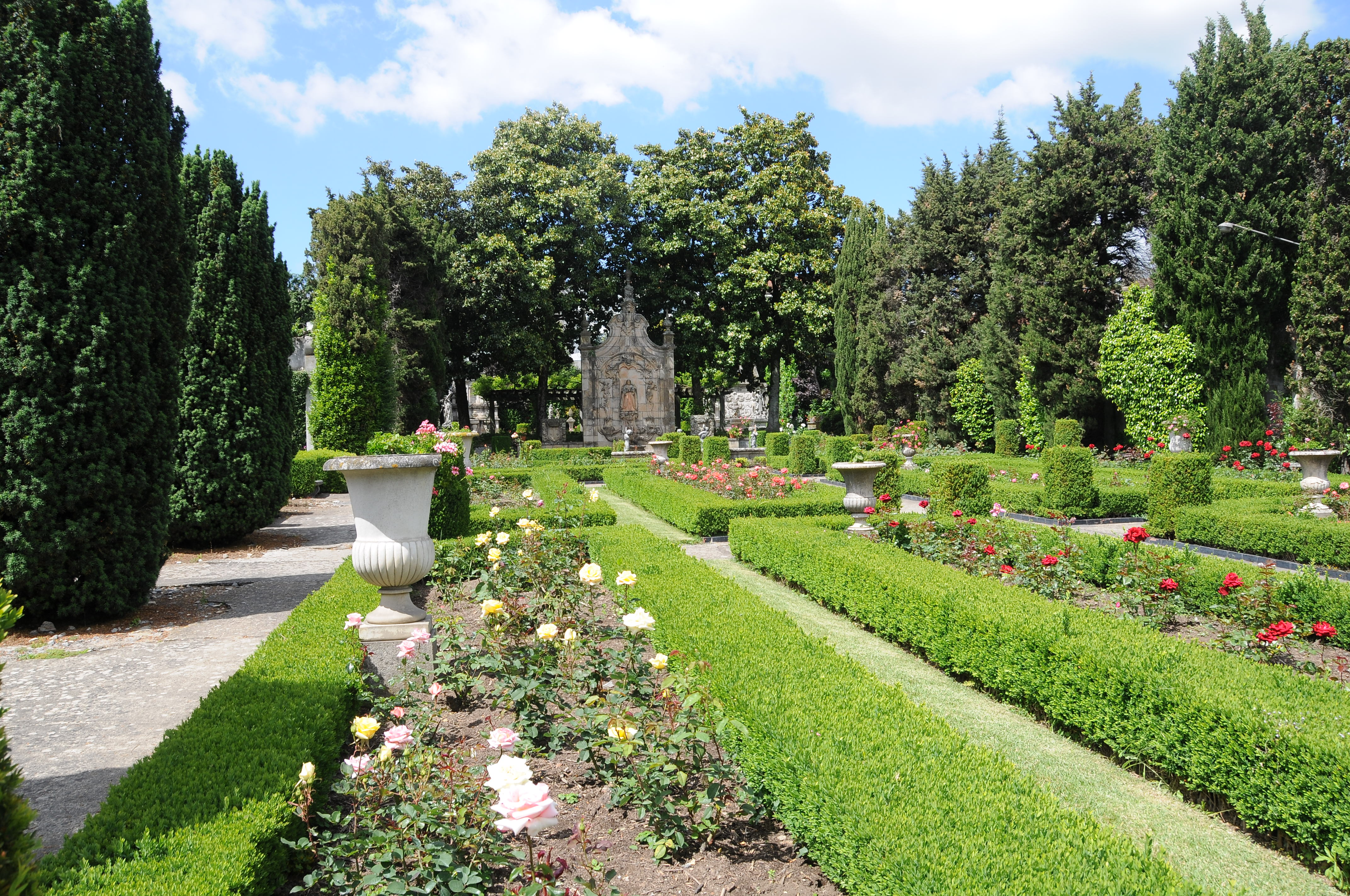 Garden in Nogueira da Silva Museum, in Braga, Portugal